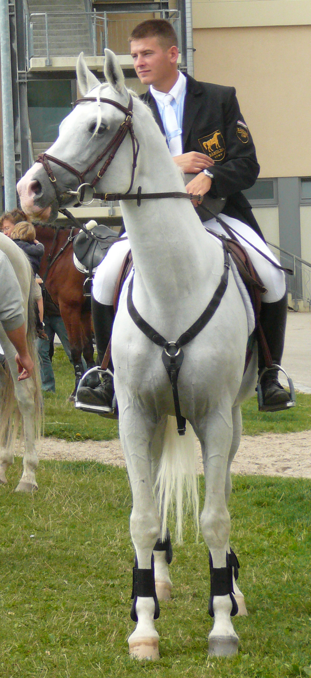 Grey stallion shagya arabian